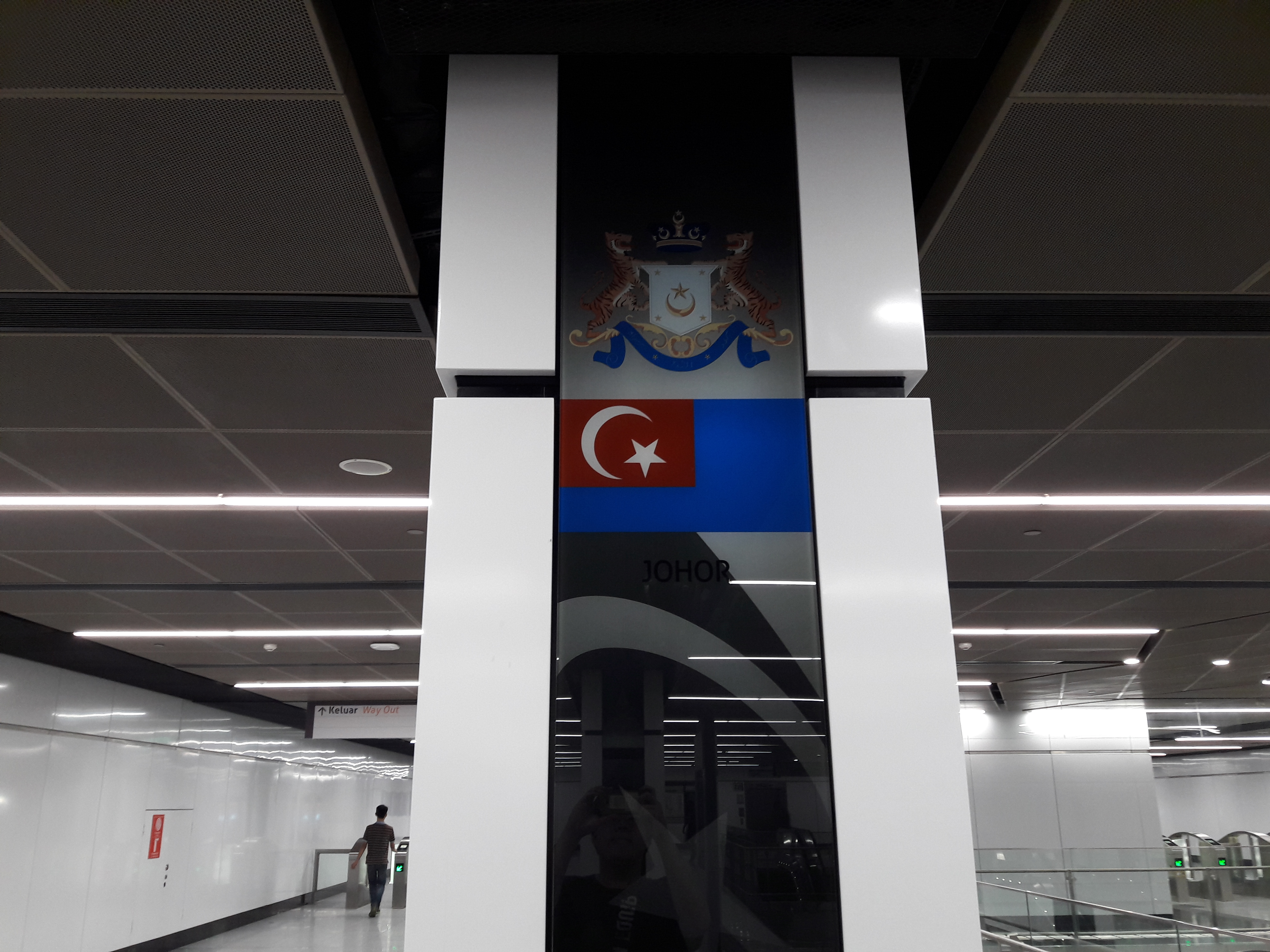 Johor flag display at Merdeka MRT